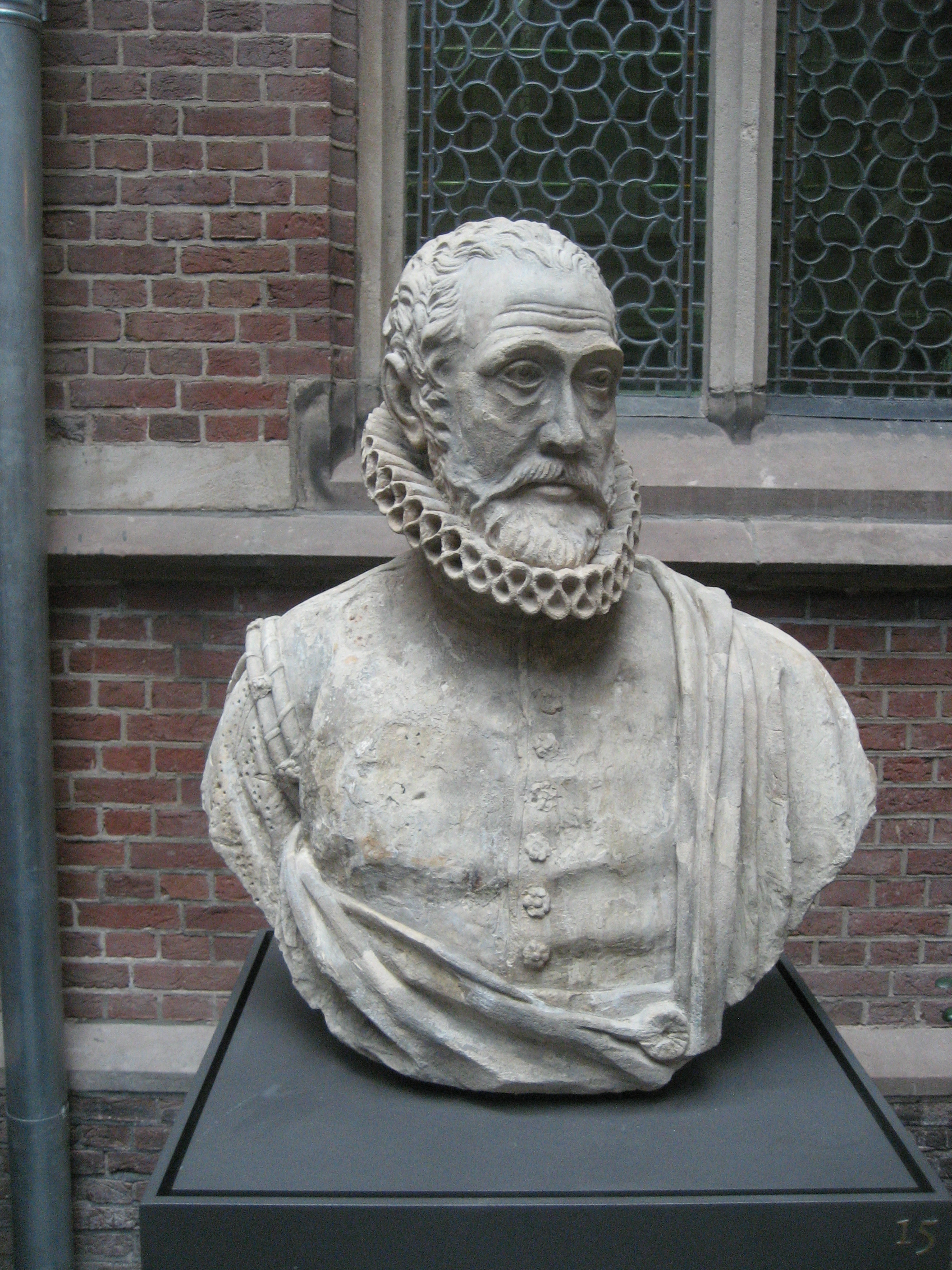 Bust of Carolus Clusius (Charles de l'Écluse, 1526 – 1609) by Gilles-Lambert Godecharle, ca 1815-1817. Location: Academiegebouw, Leiden University, Rapenburg, Leiden (The Netherlands). Icones Leidenses 20